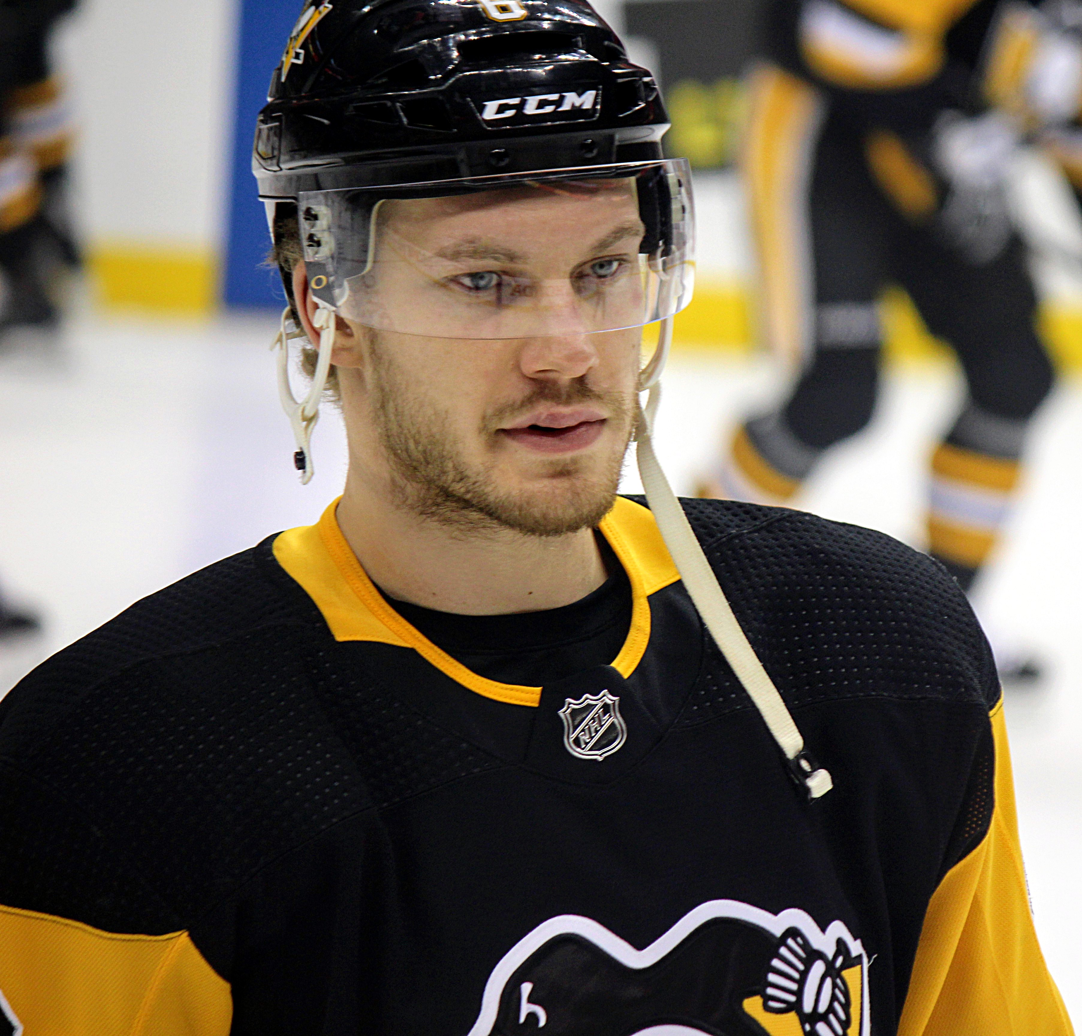 Pittsburgh Penguins defenseman Jamie Oleksiak